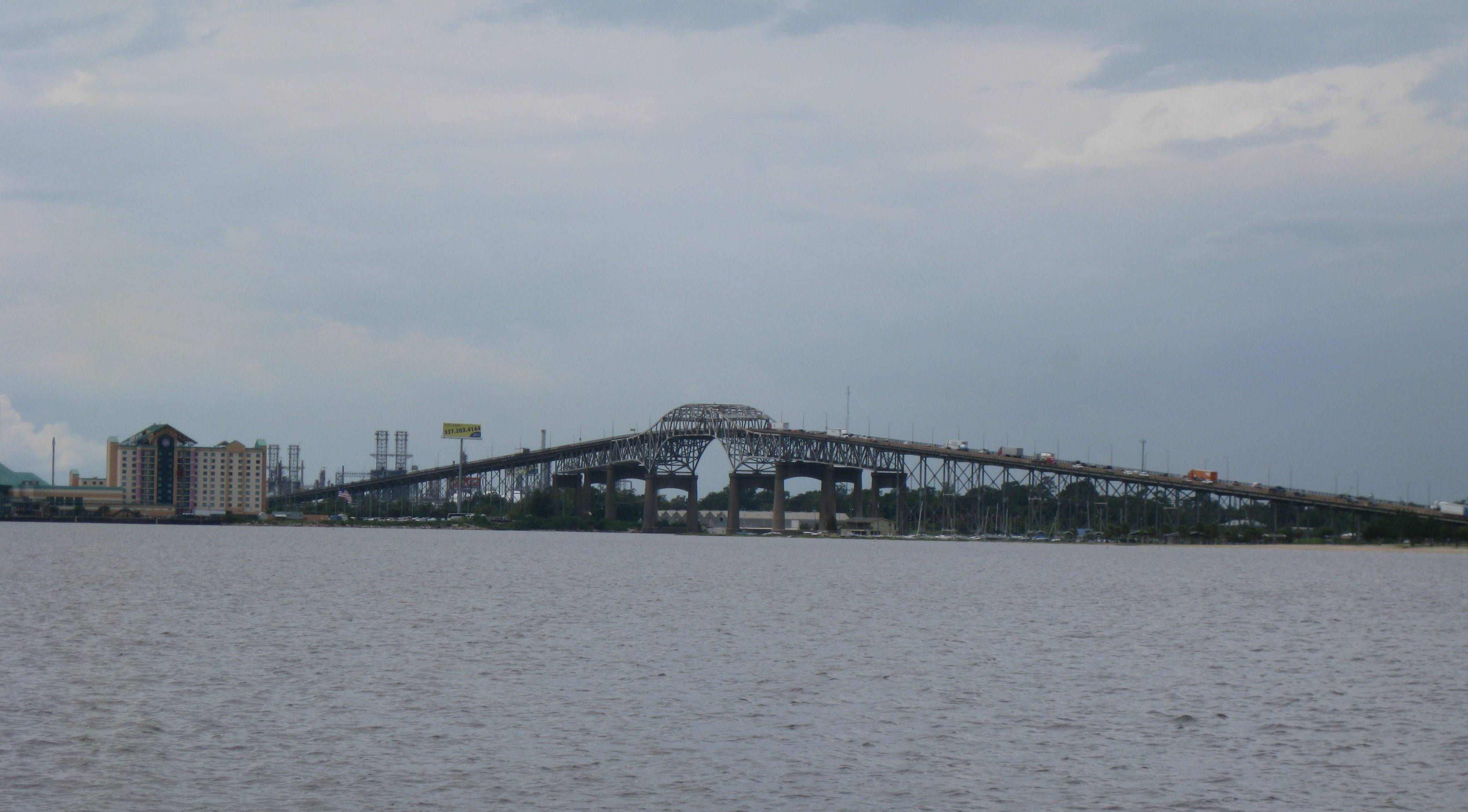 The Calcasieu River Bridge going over the Calcasieu River, in Lake Charles, Louisiana, USA.